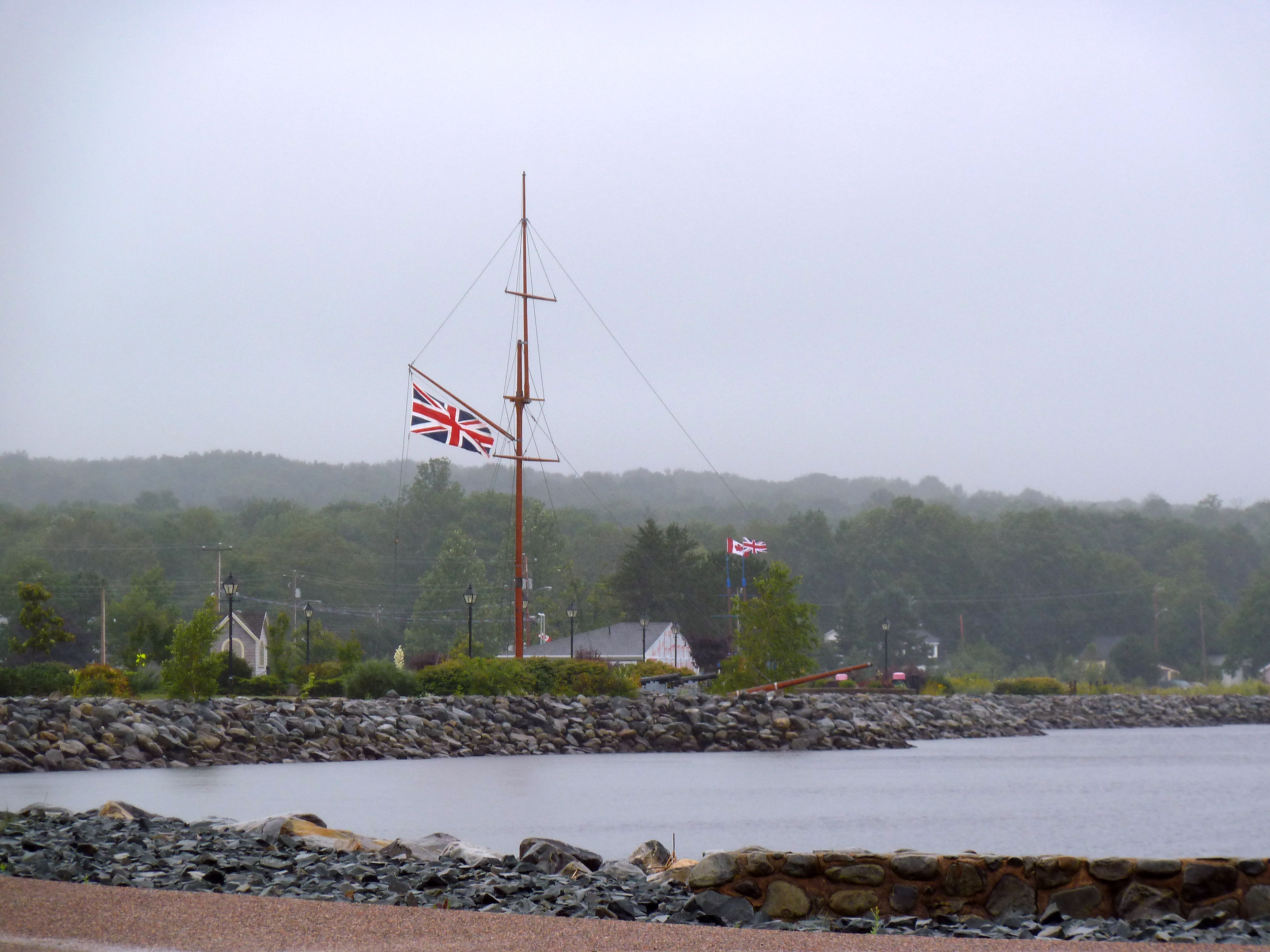 A foggy day at the Liverpool Harbour, July 30, 2011